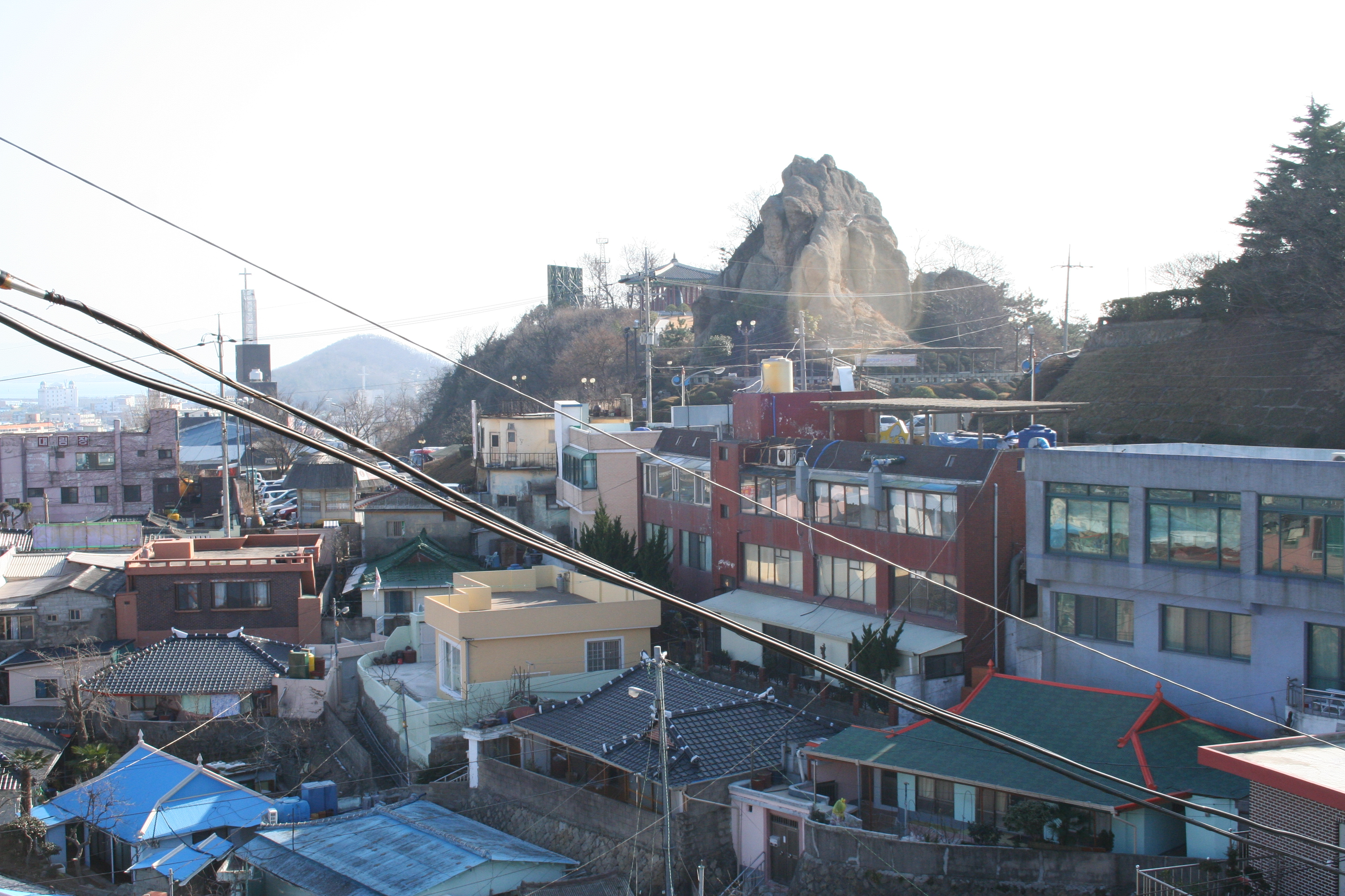 Picture taken by this user and it is released to the public domain